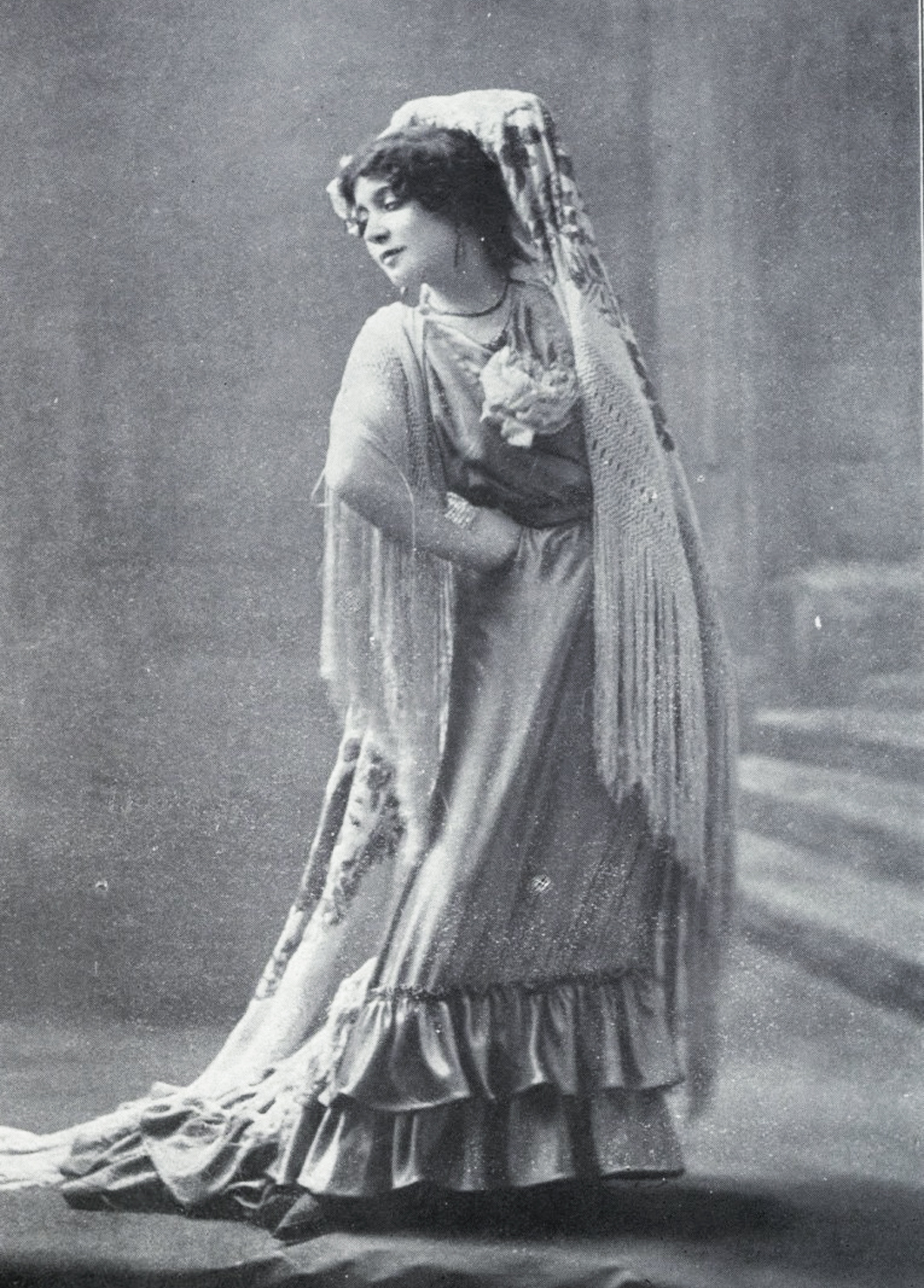 Régina Badet (1879-1949) French ballerina and actress in 1910